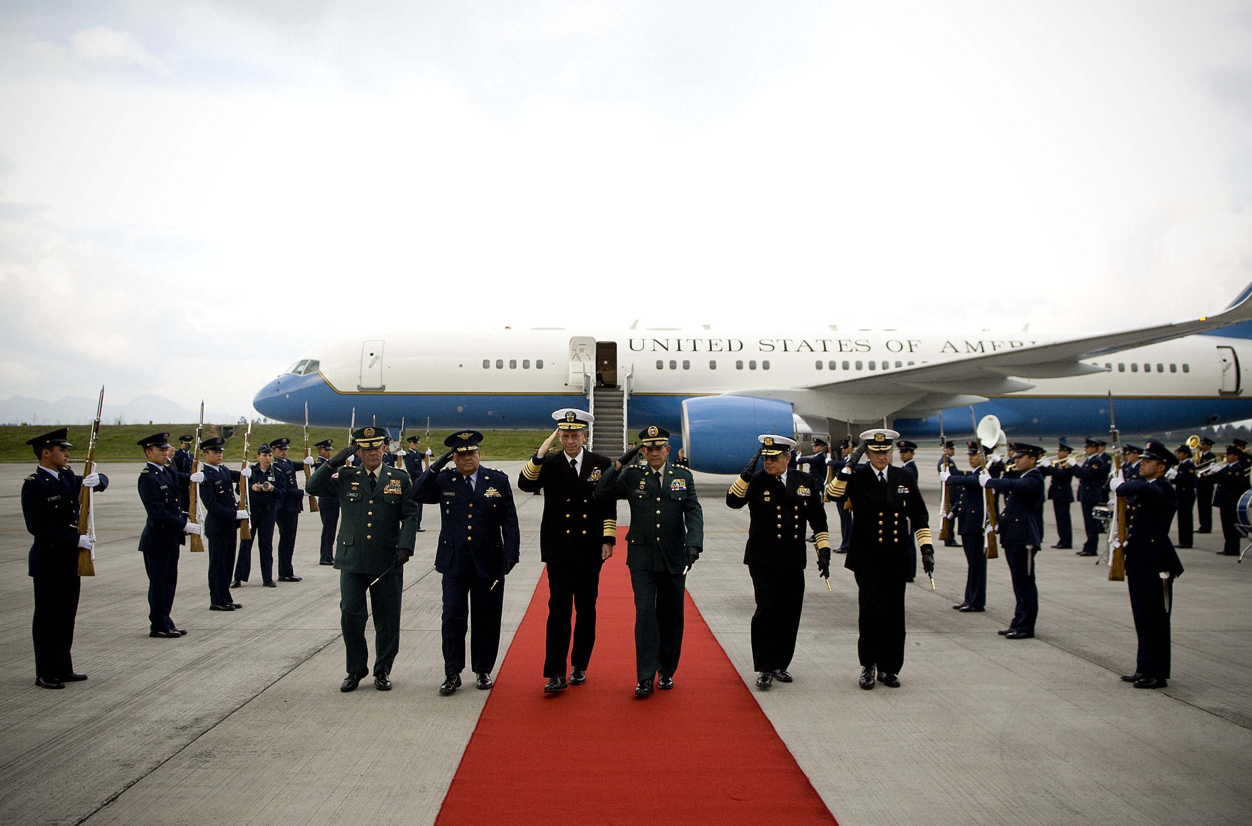 Colombian military leaders welcome U.S. Navy Adm. Michael G. Mullen, chairman of the Joint Chiefs of Staff, to Bogota, Colombia, with an honors ceremony, Jan. 16, 2008. Mullen is on a five-day trip to the U.S. Southern Command area of operations. U.S. photo by Petty Officer 1st Class Chad J. McNeeley